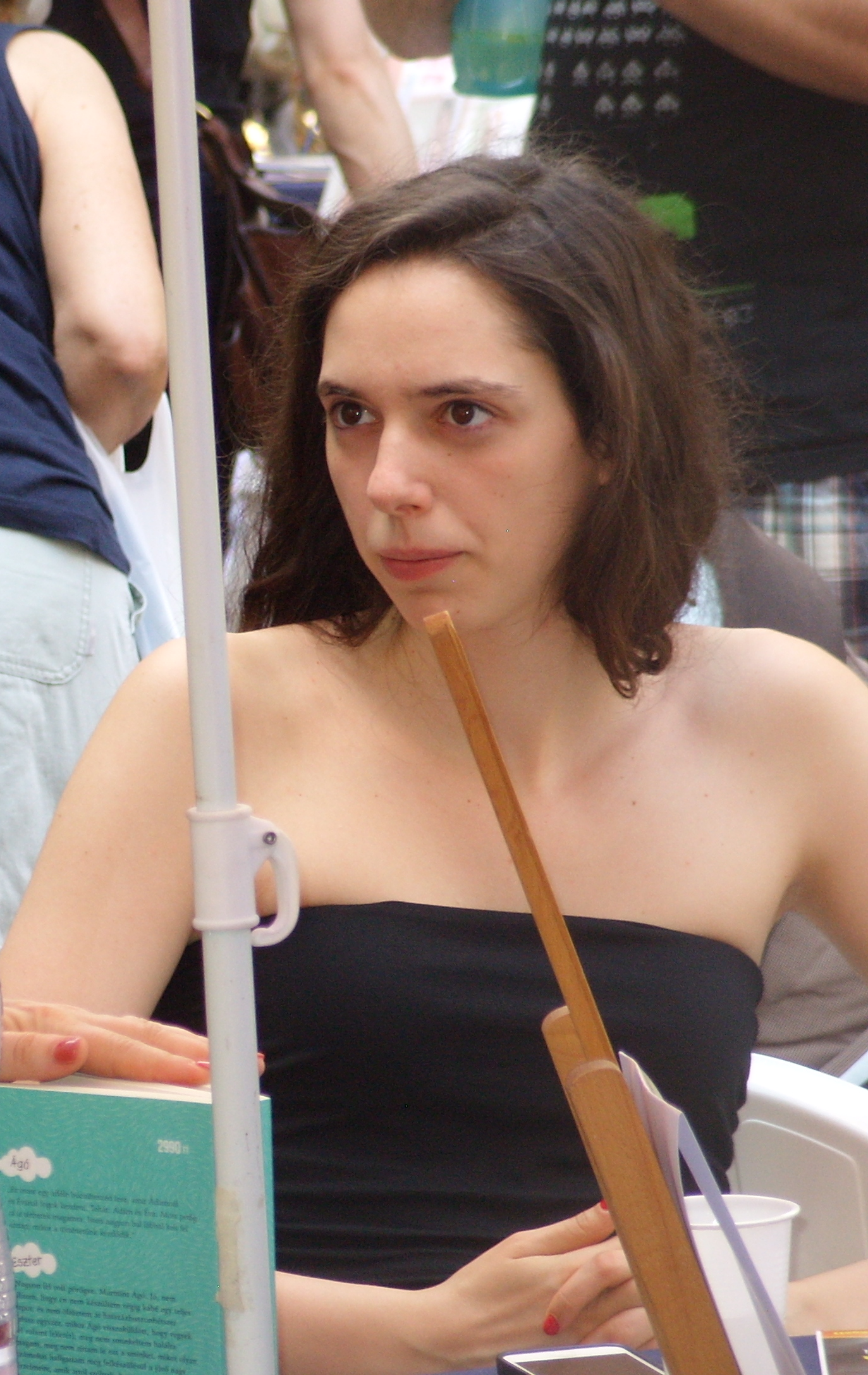 Zsófi Kemény Hungarian poet dedicates on the Festive Book Week, 2015, Budapest